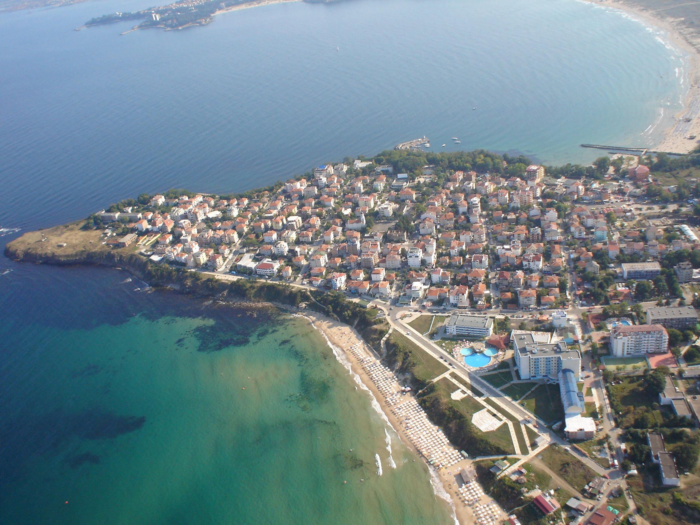 Primorsko 2005